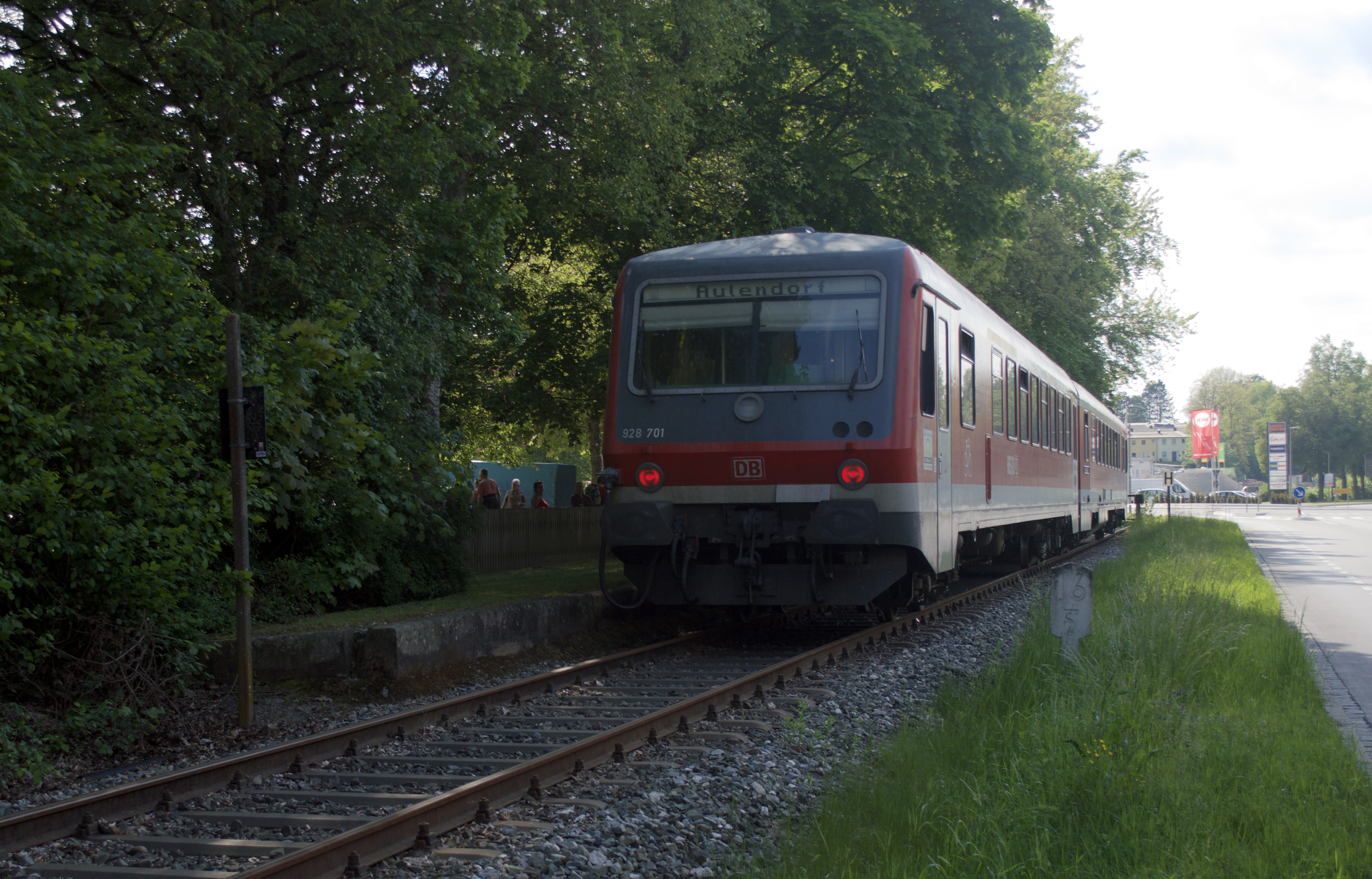 628.701 at Pfullendorf on 25 May 2017 on train RB22899, 17:31 Pfullendorf to Aulendorf. Services run only on certain weekend and holiday dates in the high season. Running through to Schwackenreute the line having lost its passenger service in the early 1970s.